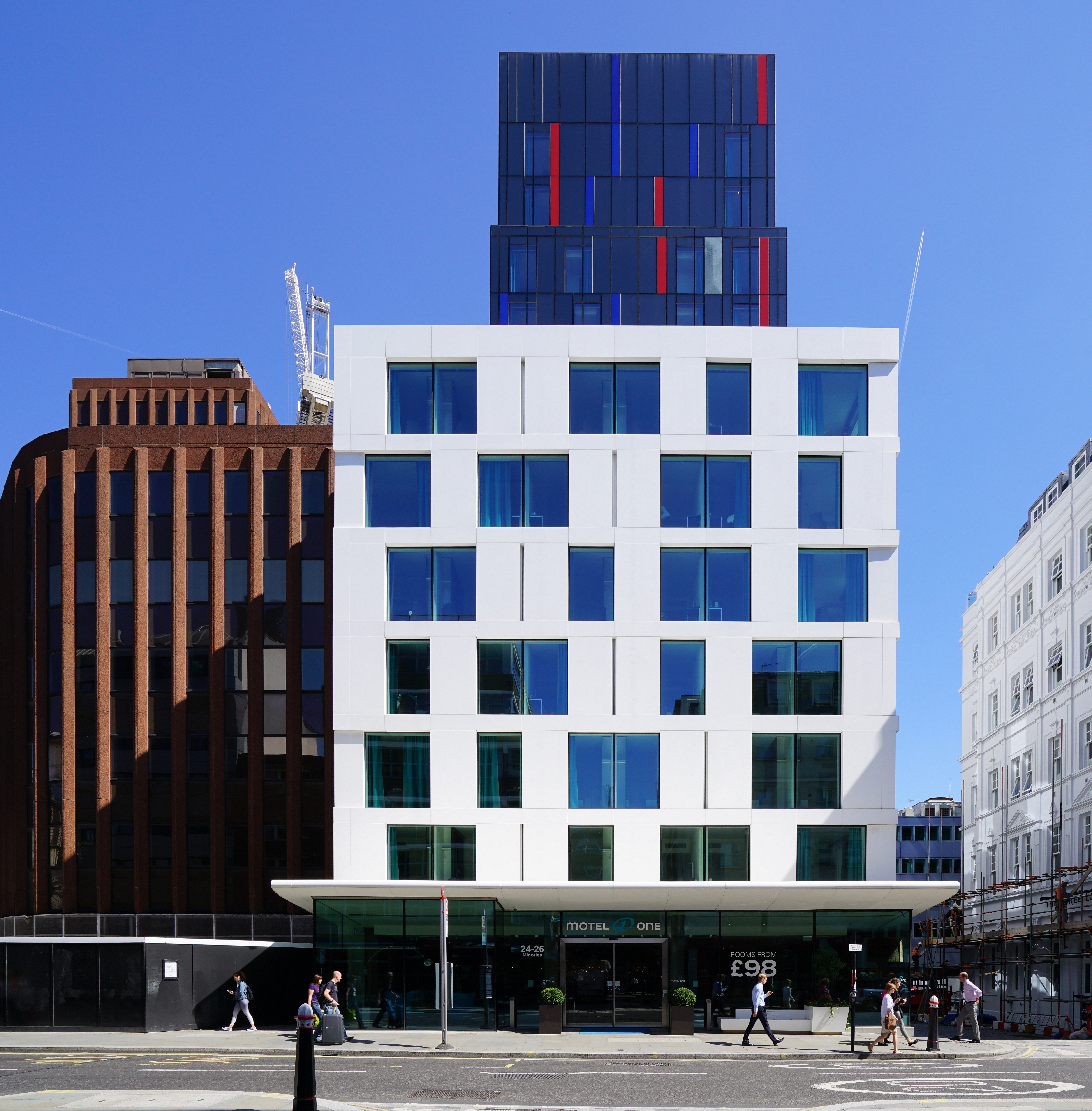 Motel One London-Tower Hill in London (24–26 Minories, London EC3N 1BQ, UK): Main entrance